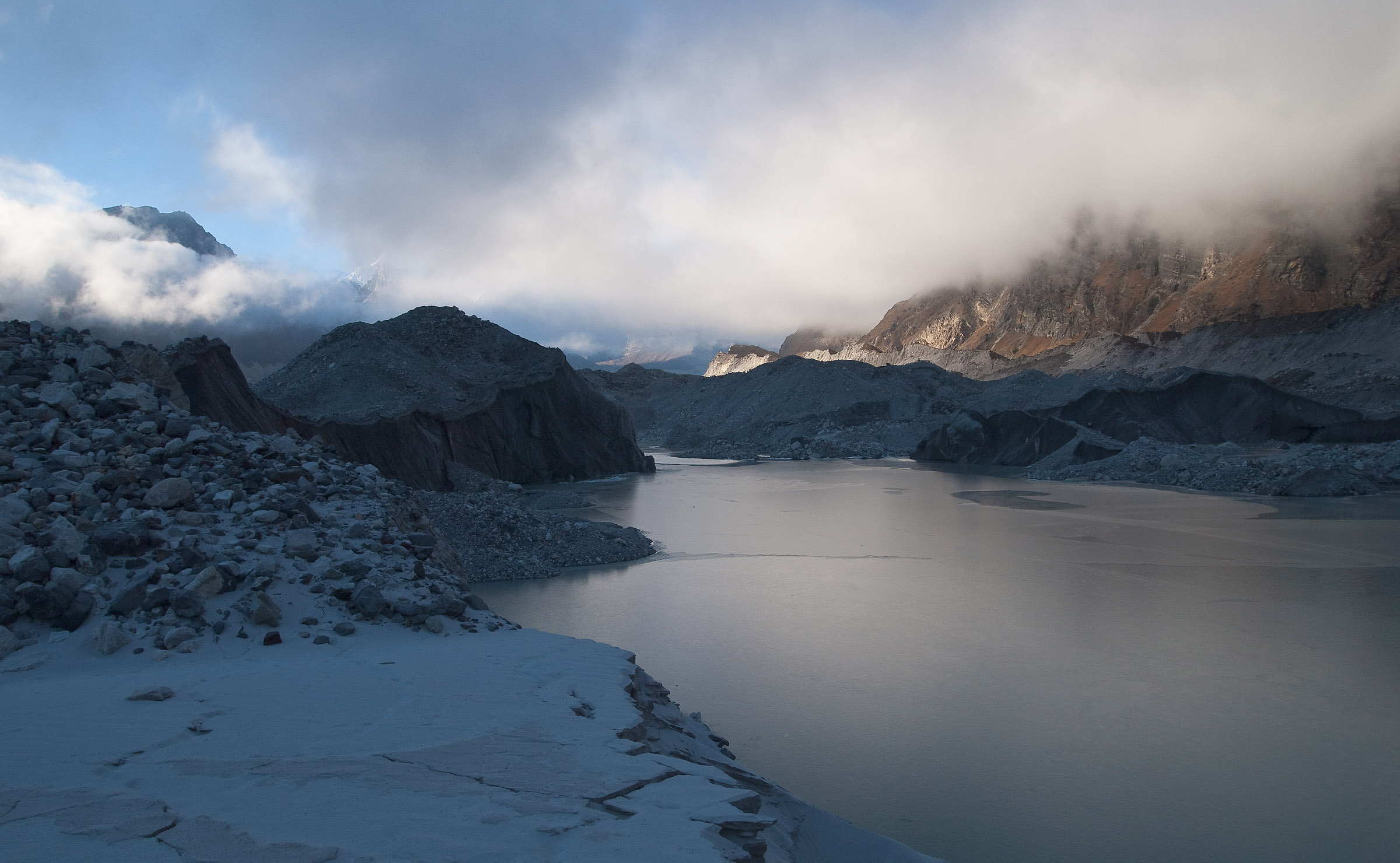 Core (interior) of Ngozumpa glacier with Spillway lake ahead. Quite dangerous place to be. The whole place should be constantly moving at several cm a day.